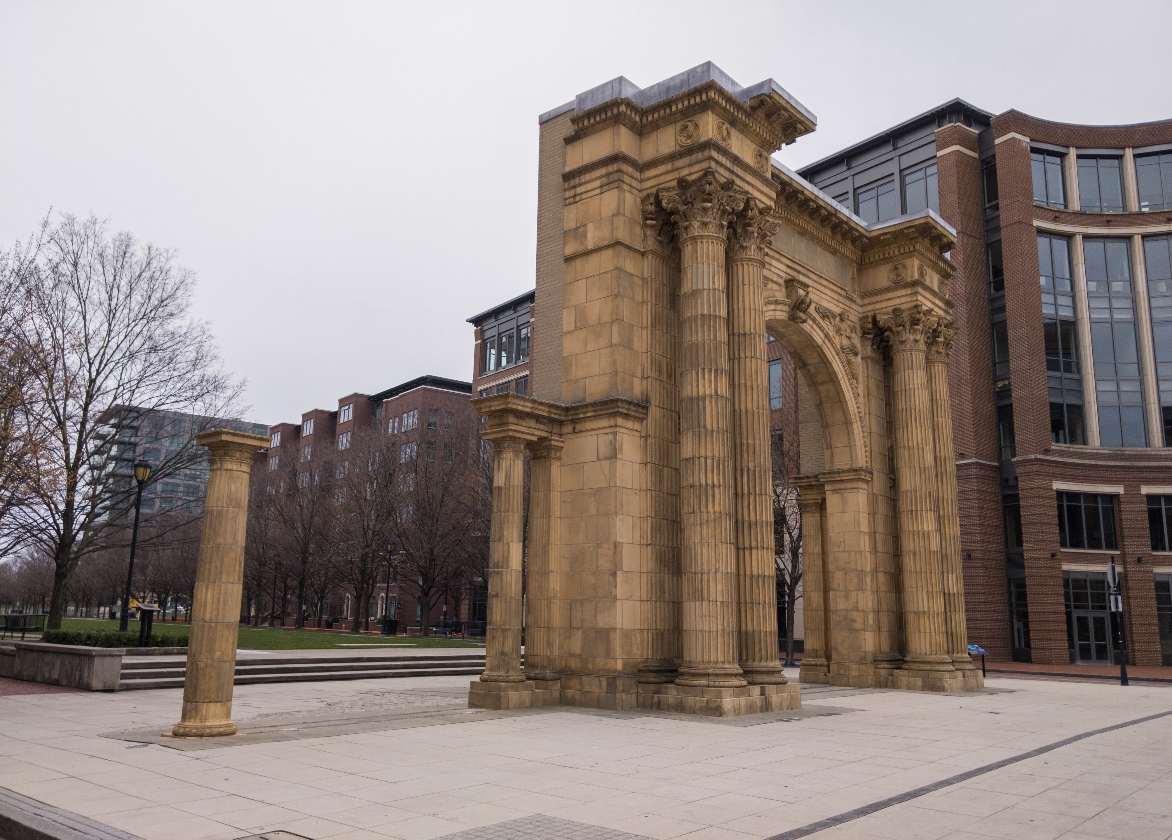 Union Station arch, taken in the Arena District of downtown Columbus, Ohio.